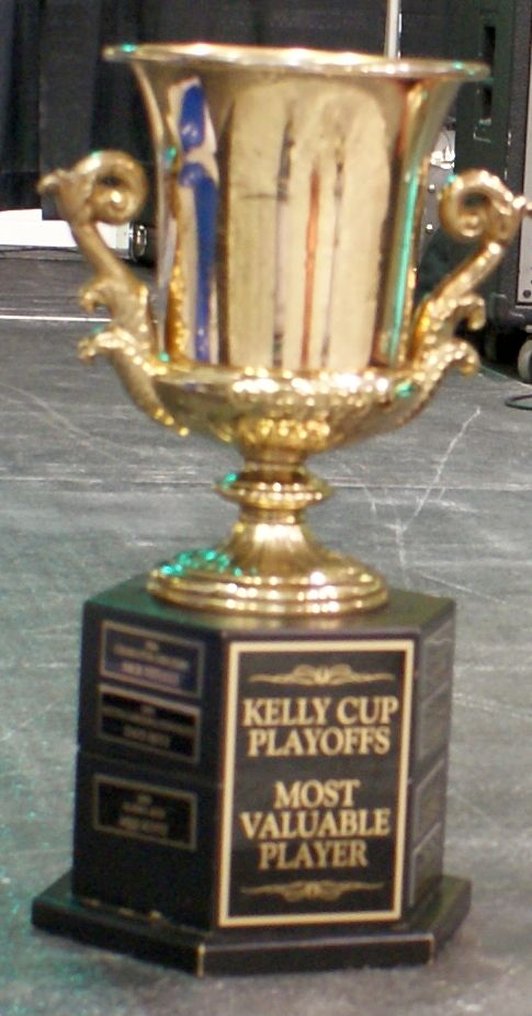 The ECHL's Kelly Cup Most Valuable Player trophy.